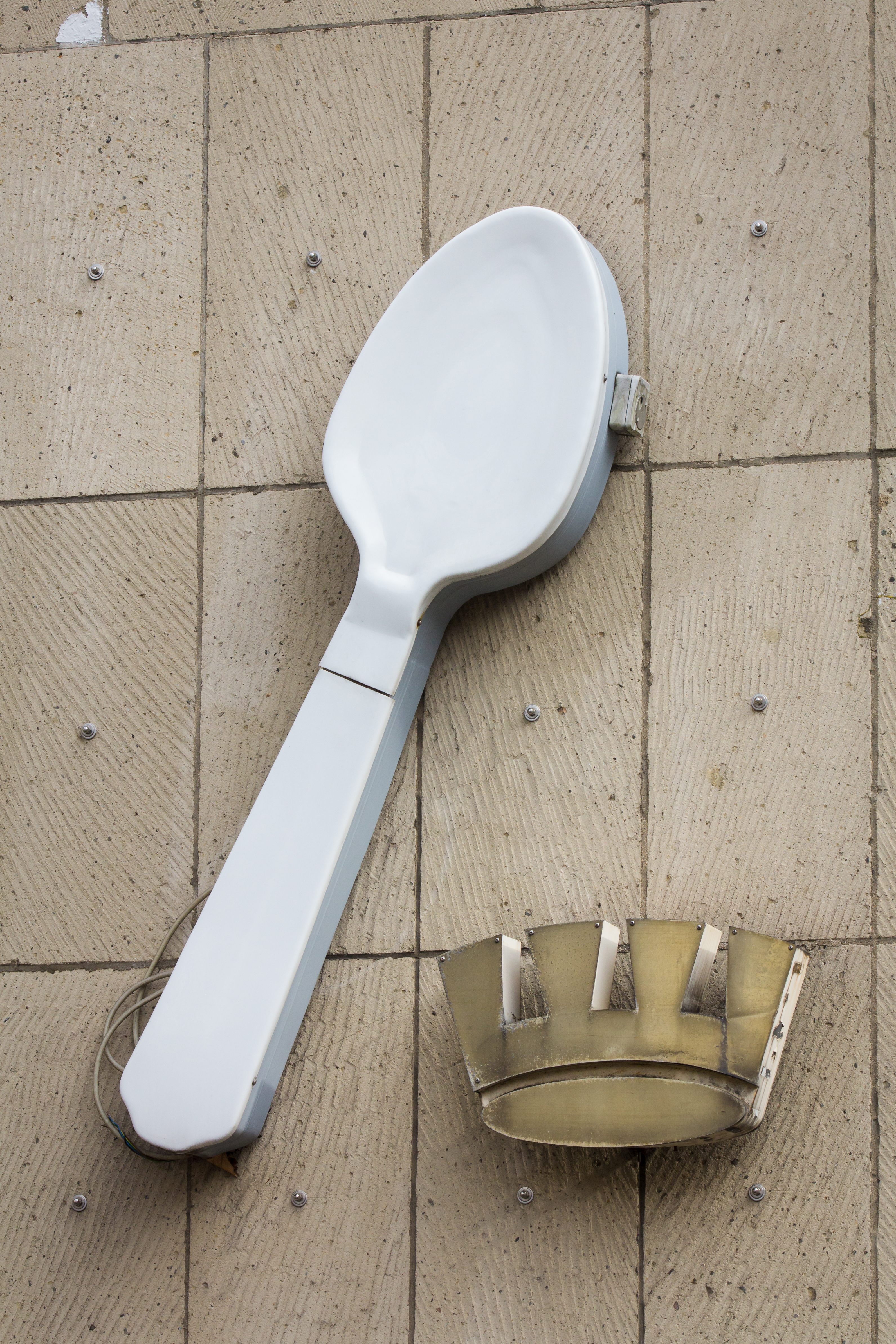 Cutlery Museum Glaub, Cologne, facade detail